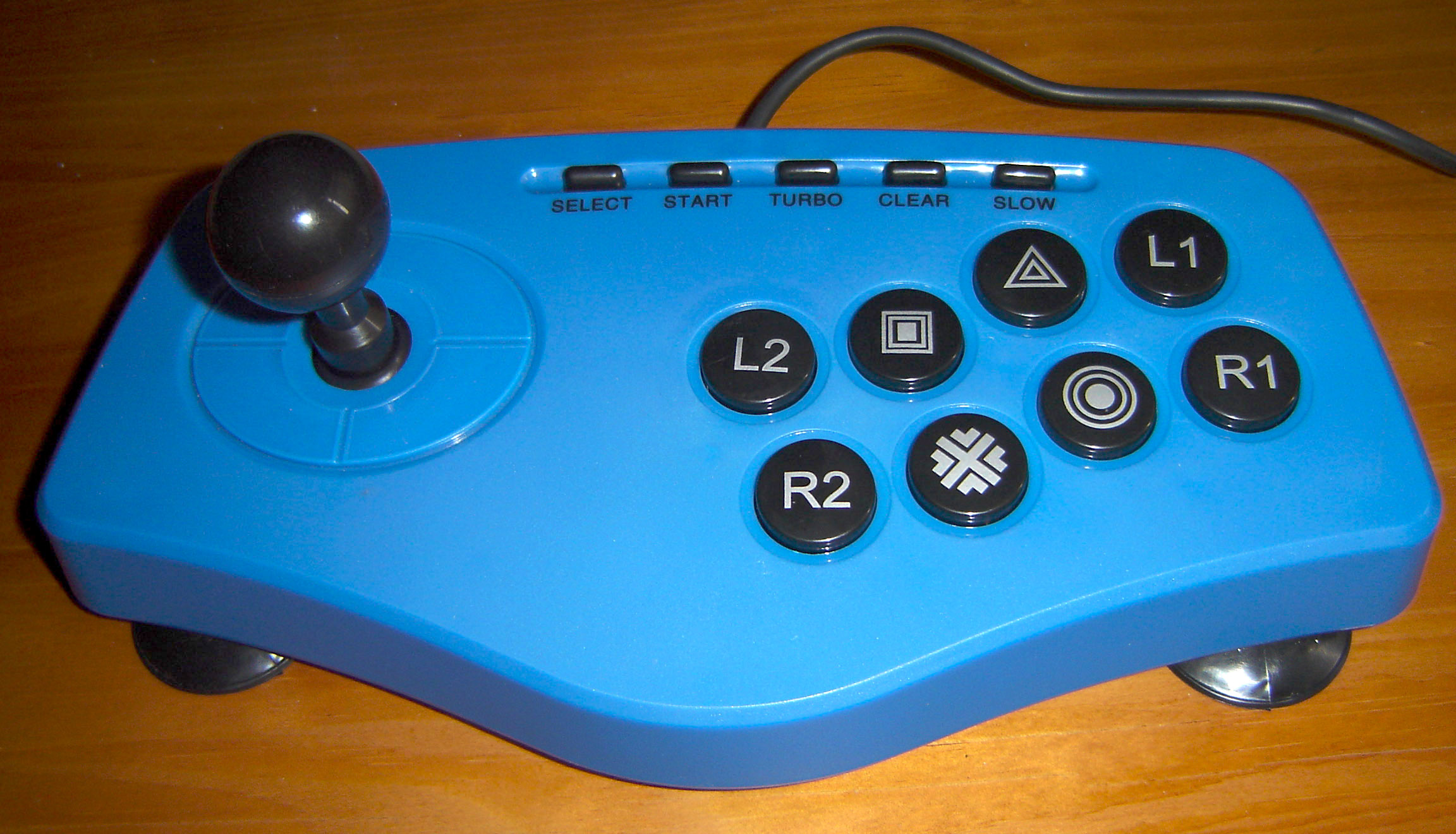 picture of an arcade controller for PlayStation 2